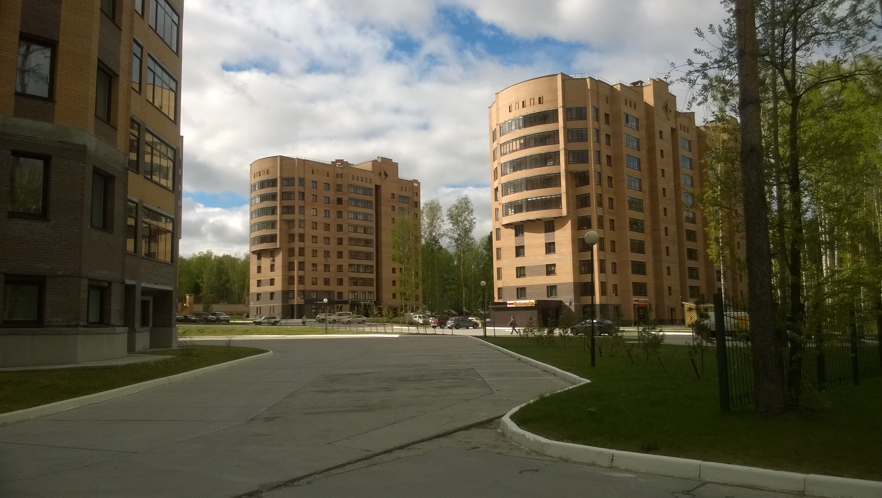 Koptyug Avenue in Novosibirsk.